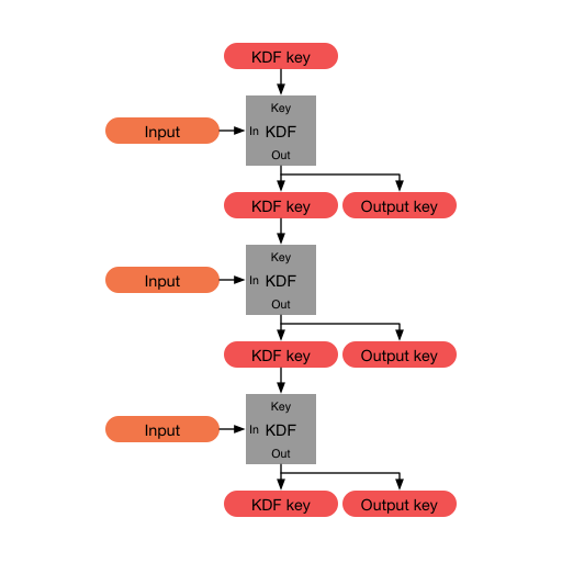 DRA KDF chain